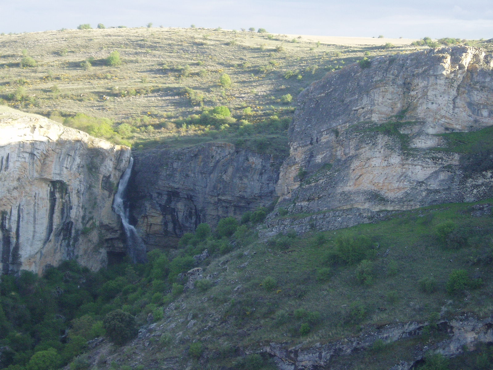 Views to Gollorio falls from the Viewing-point of Félix Rodríguez de la Fuente, in Pelegrina, Guadalajara.